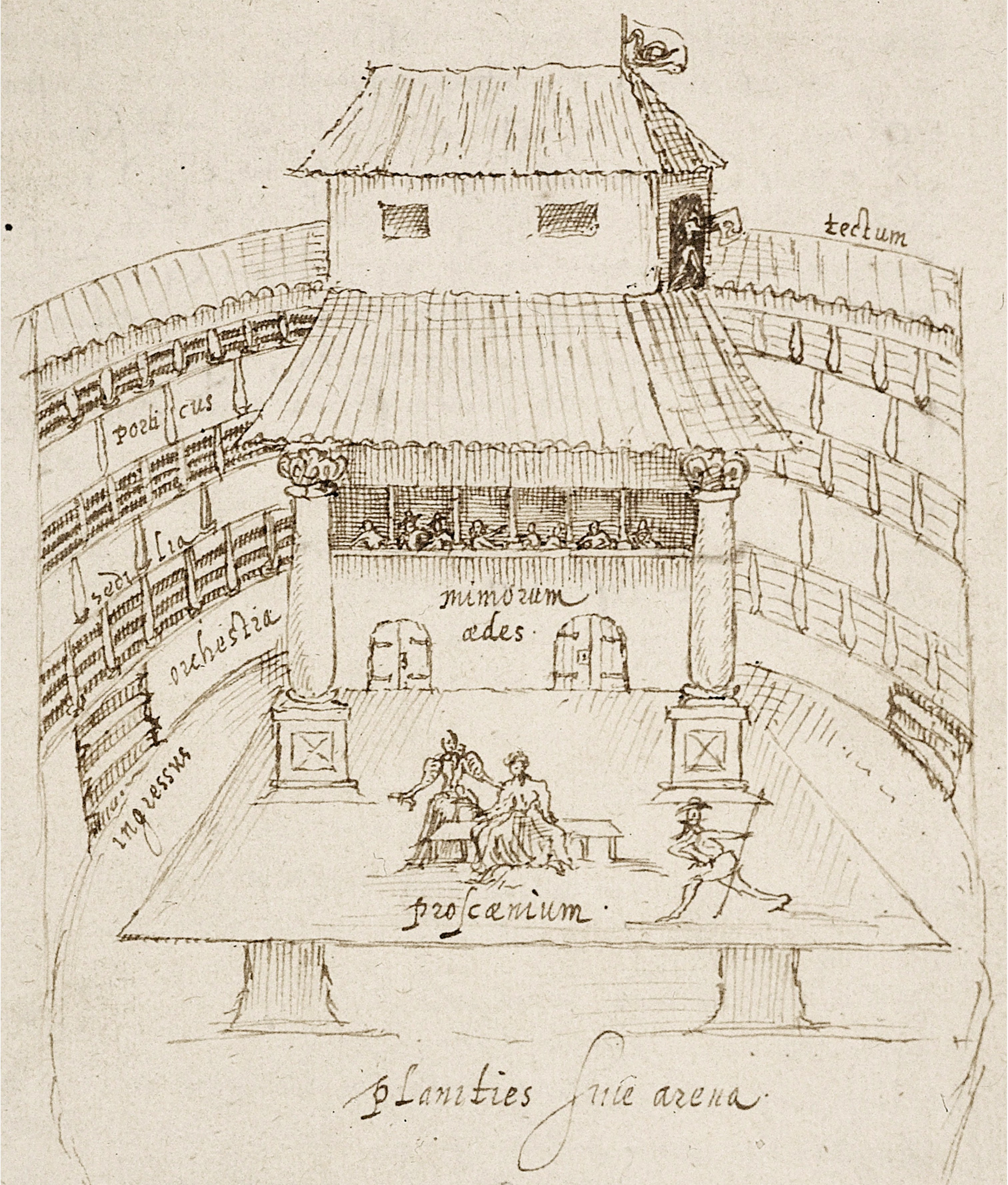 The Swan Playhouse in London, as sketched by Dutch humanist scholar Johannes de Witt (c.1566-1622) in 1596. He visited London and documented his impressions of the city's four theaters, noting that the Swan was the largest and most magnificent, holding 3,000 persons and reflecting classical design. The stonework was "supported by wooden columns painted in such excellent imitation of marble that it is able to deceive even the most cunning". This is a copy of de Witt's sketch, made by his friend Aernout van Buchell (1565-1641). It shows three galleries around a circular space, enclosing a rectangular proscenium. At the back is a building through which actors may enter and exit. A slanting wooden canopy, identified as the "sky", extends from the this structure, supported by two Roman columns. This is the only contemporaneous illustration of an Elizabethan theatre. The drawing is folio 132r in Arnoldus Buchelius' Adversaria, Ms. 842 in the Special Collections of Utrecht University Library.